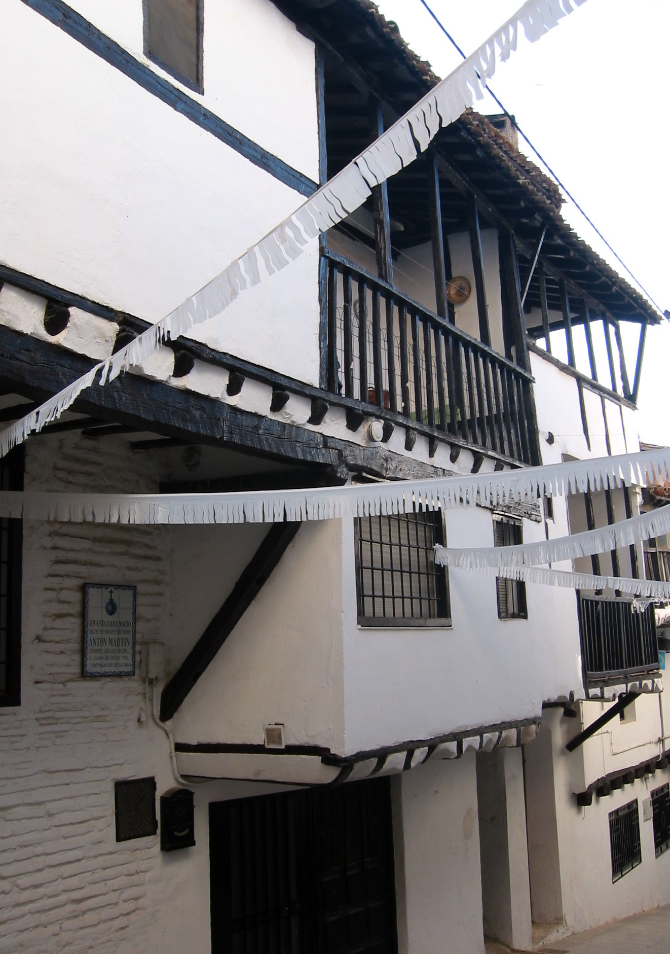 Casa de Antón Martín en Mira (Cuenca)